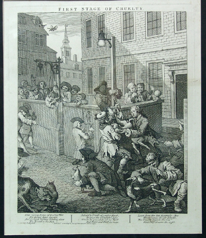 Four stages of cruelty - First stage of cruelty, first of series of engravings